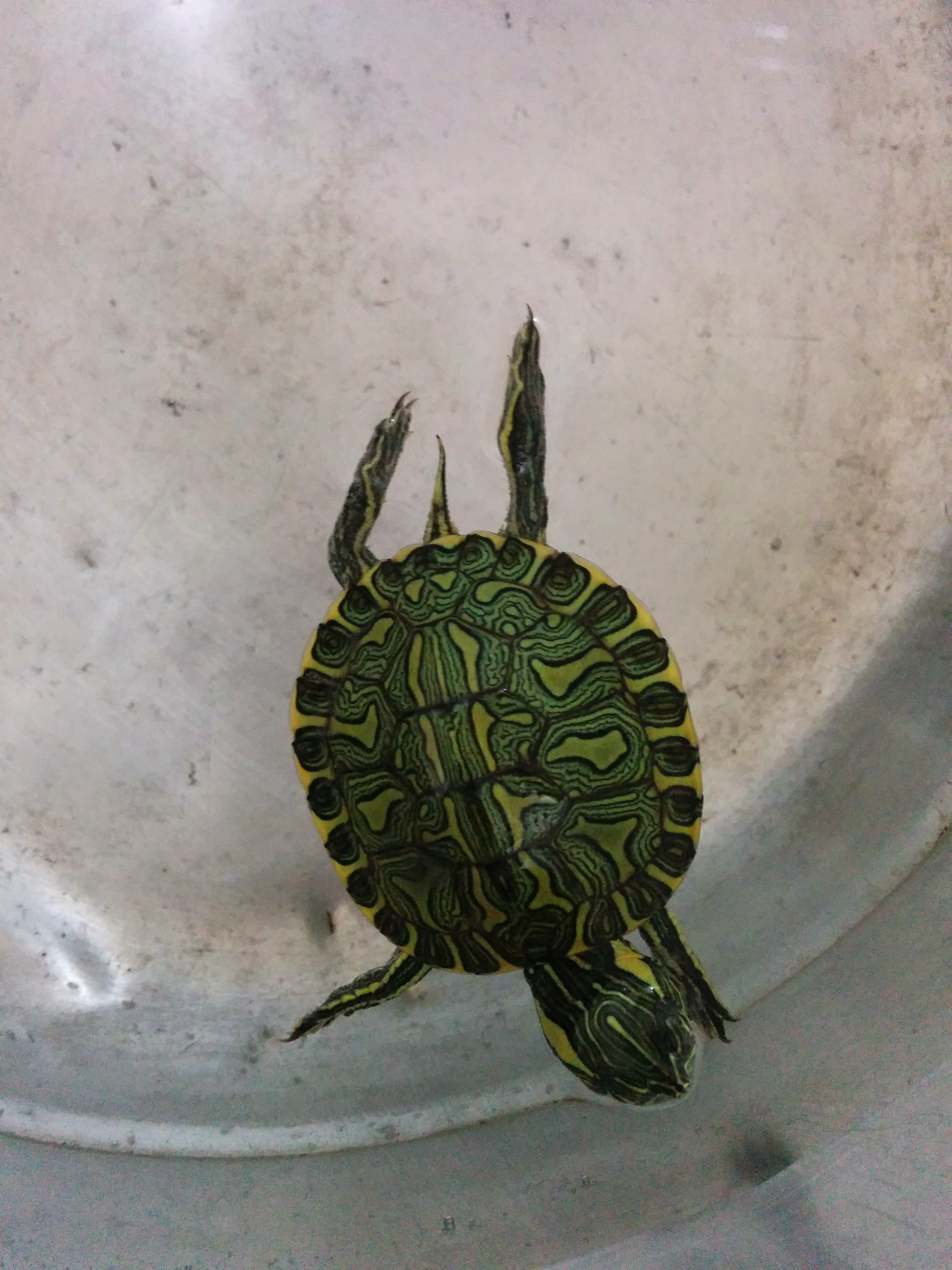 Baby D'Orbigny slider with pneumonia - Most common disease. You can diagnose it by putting the turtle on a bucket with water. If the turtle have any difficulty in floating , or if it is pending over one side, you must seek a vet immediately.